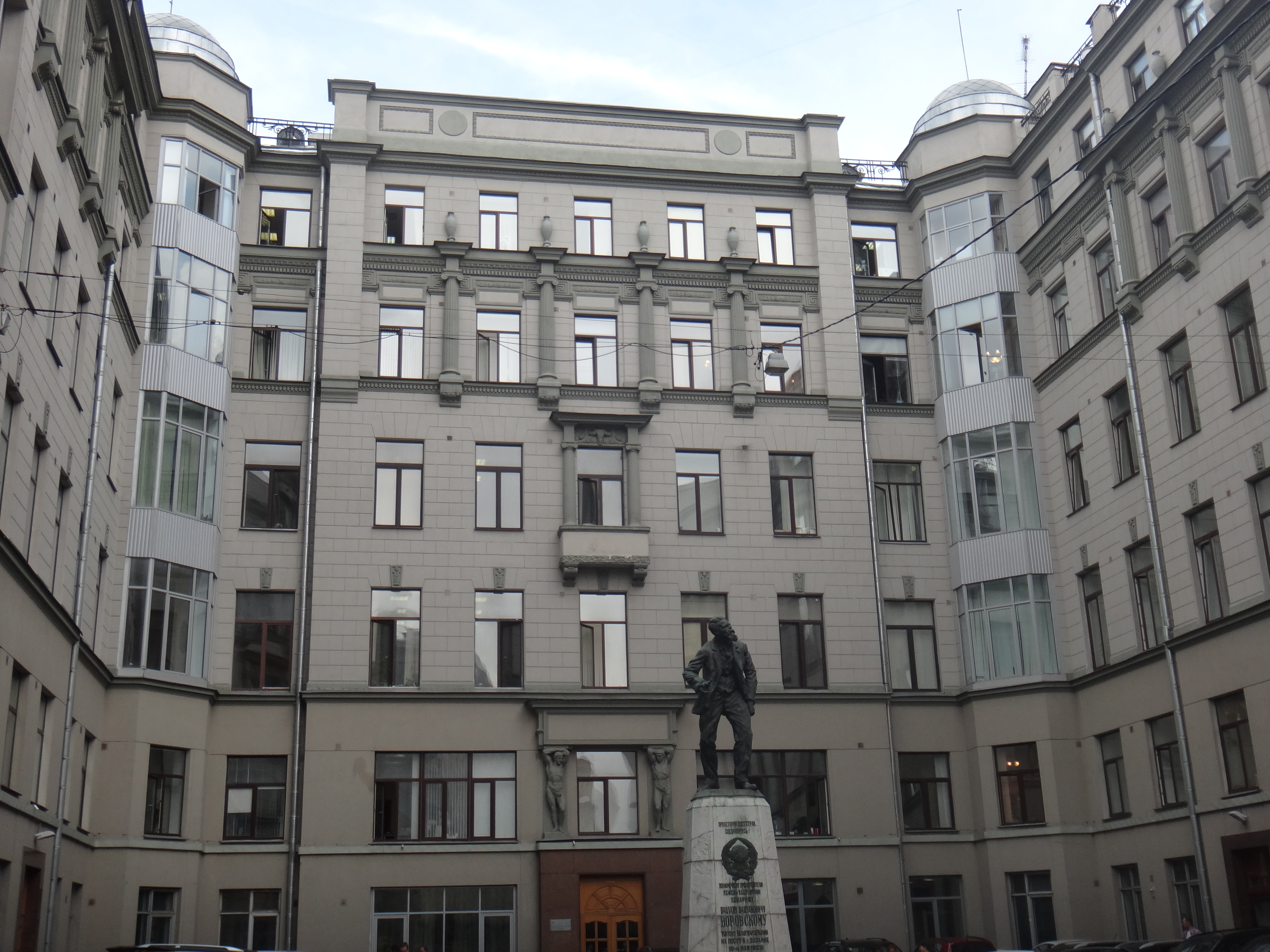 Meshchansky District, Moscow, Russia